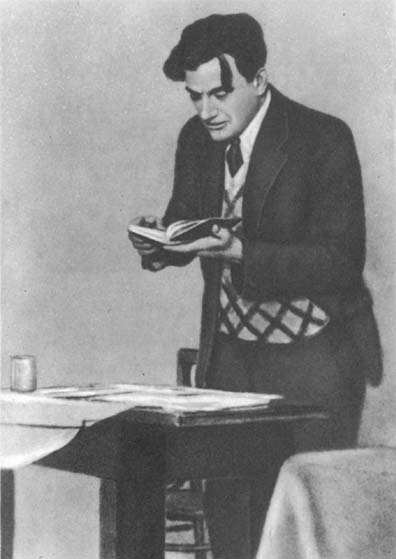 V.V. Mayakovsky 1930